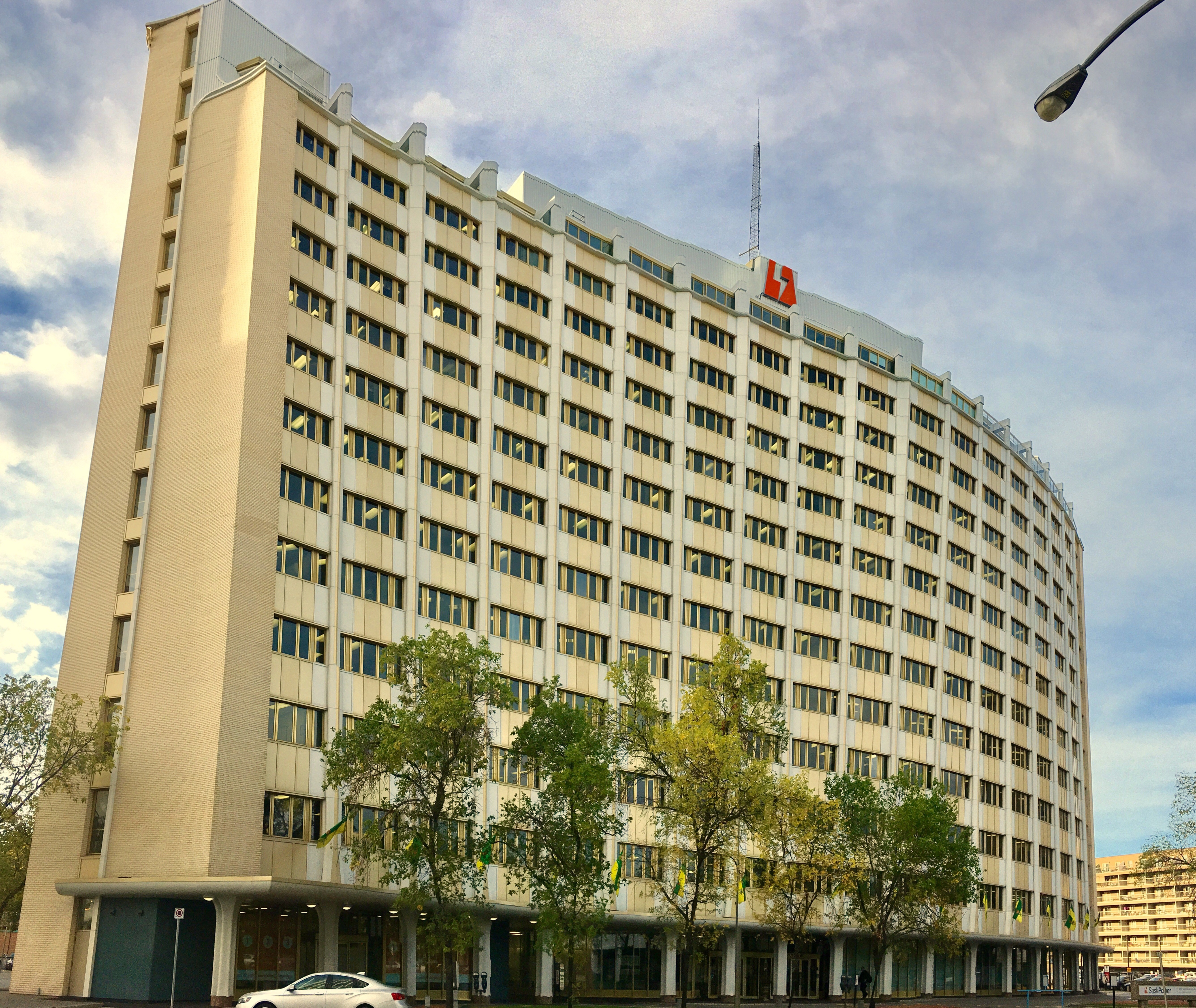 photo of the saskatchewan power building taken with iPhone.